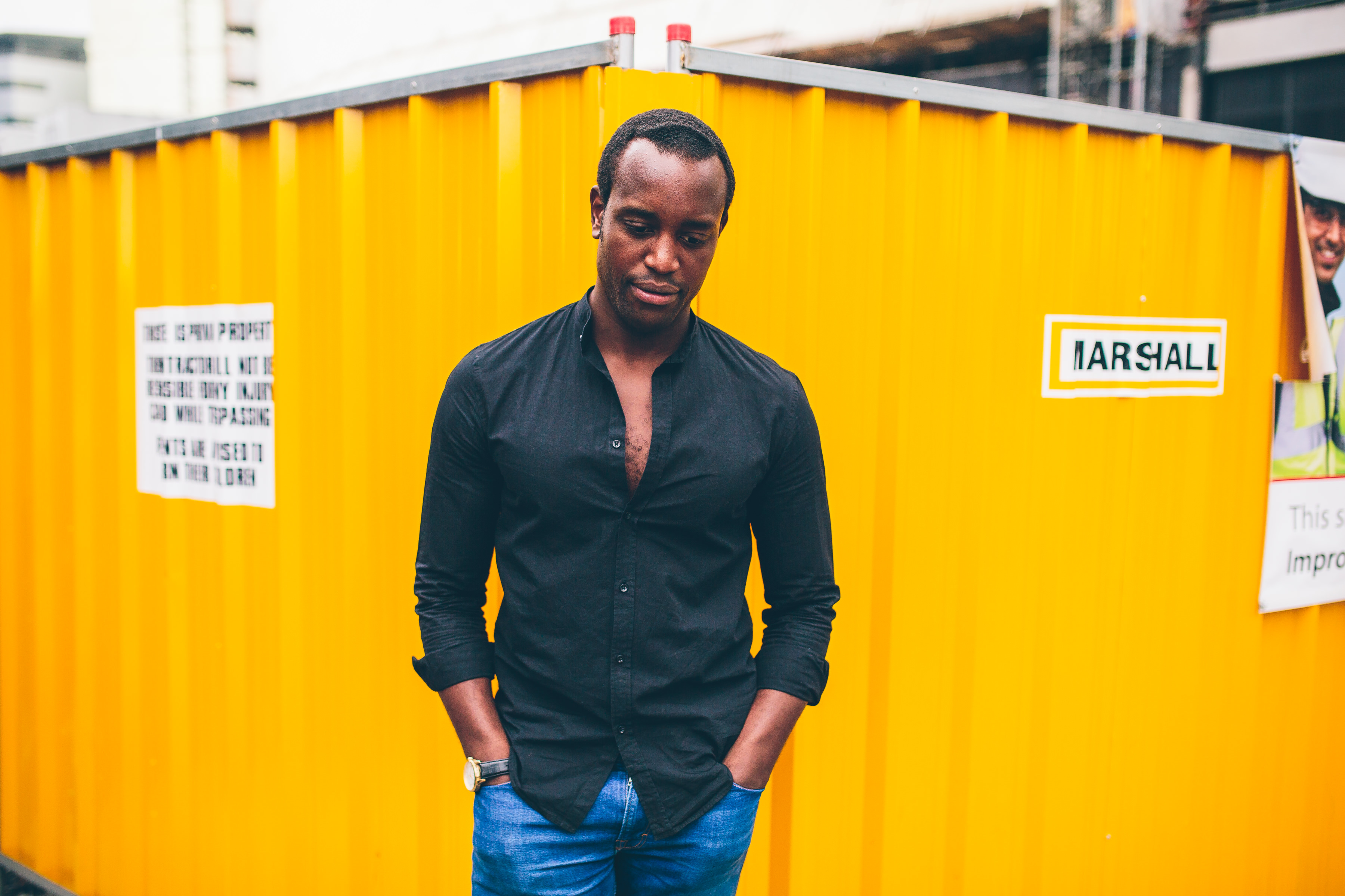 A portrait of Gamal Fahnbulleh taken in Manchester by